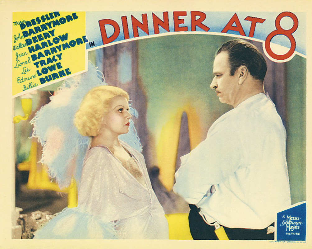 Lobby card for the American comedy drama film Dinner at Eight (1933).